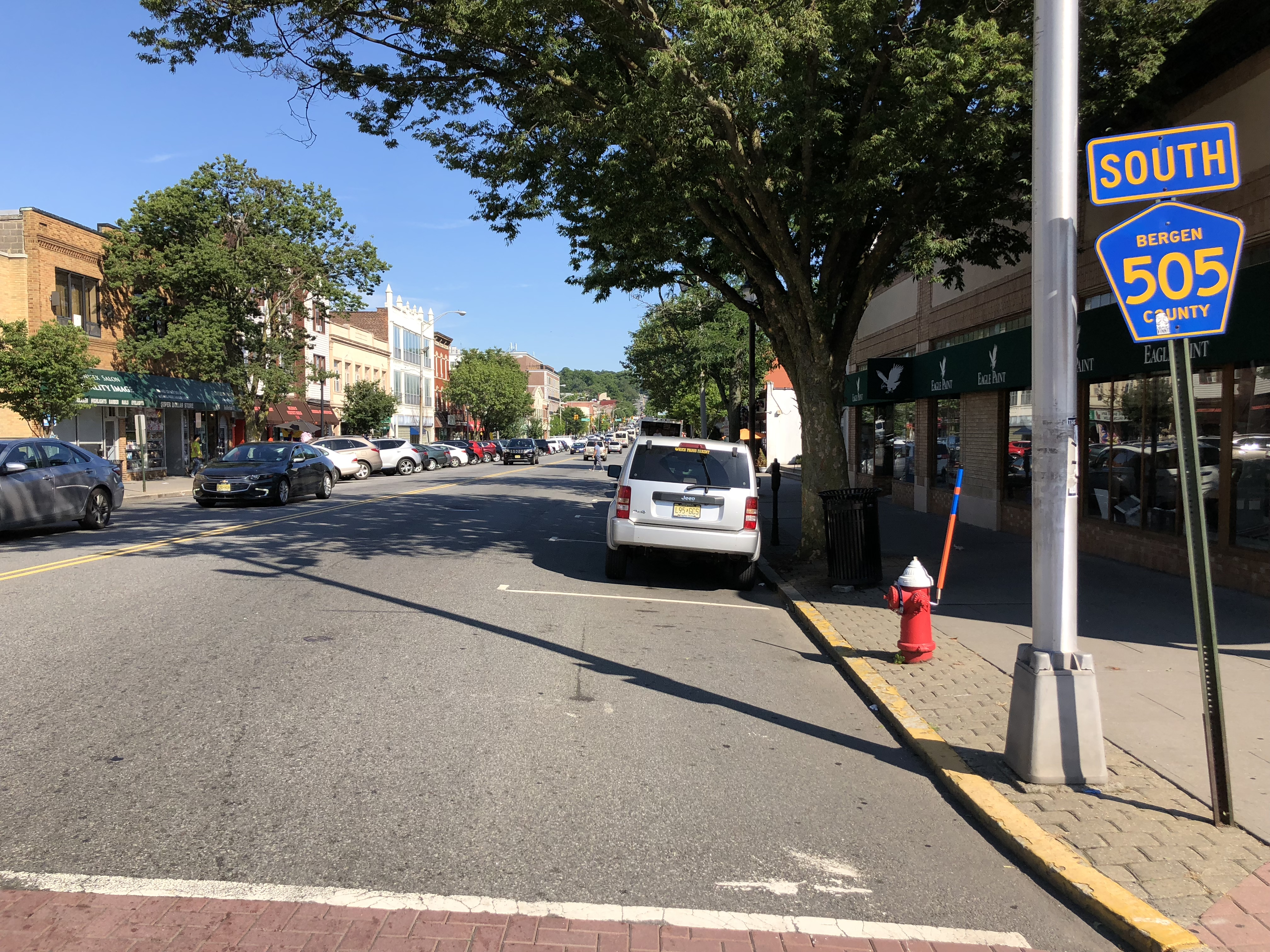 View south along Bergen County Route 505 (Palisade Avenue) at Tenafly Road and Bennett Road in Englewood, Bergen County, New Jersey